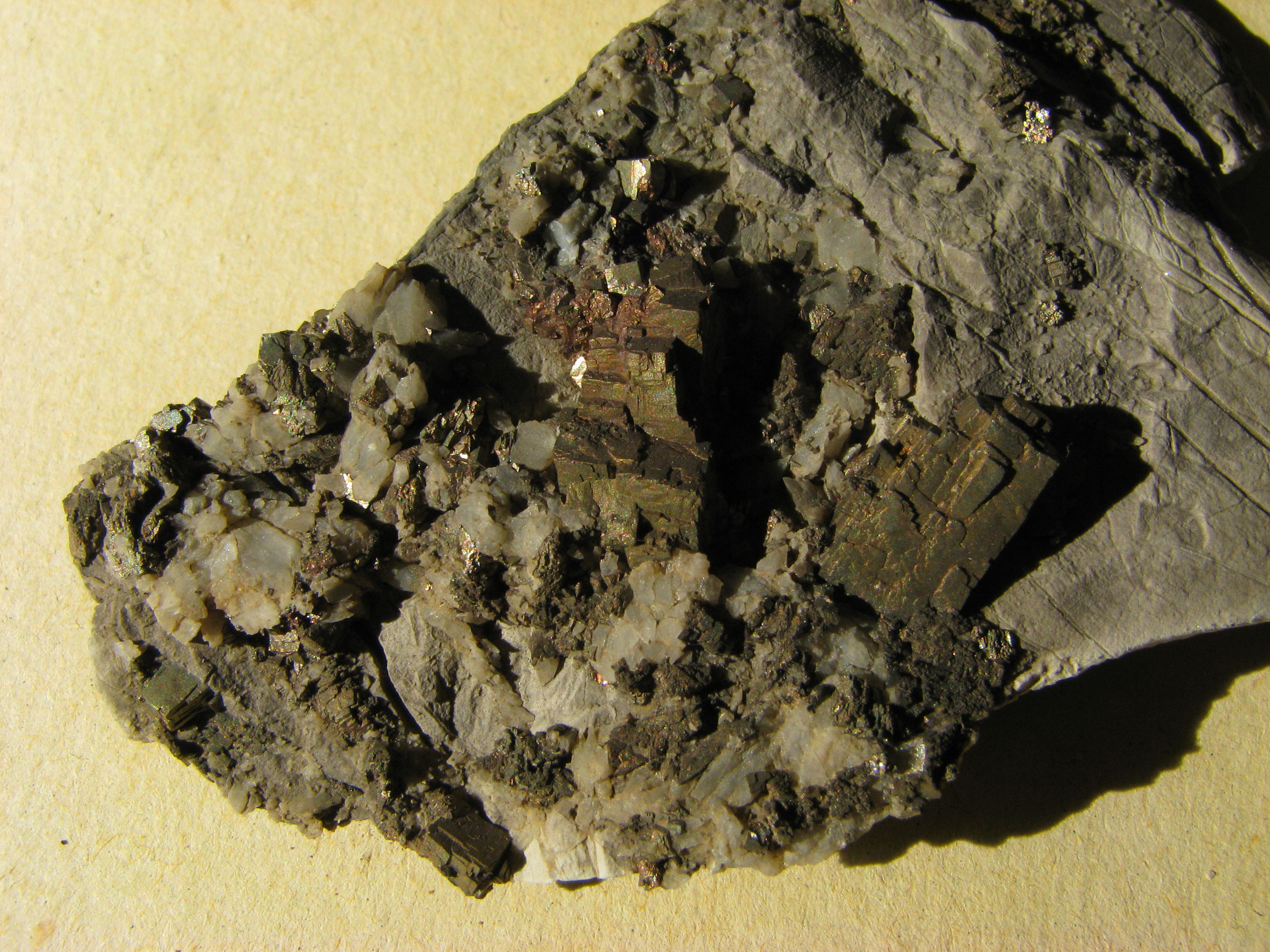 Marcasite - crystals in matrix, Val di Non, Trentino, Italy